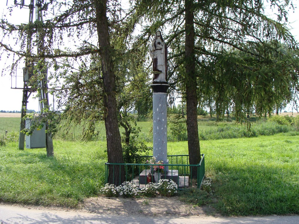 Boreczek, roadside shrine.